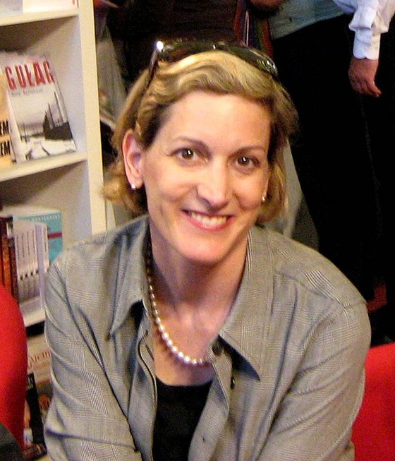 Anne Applebaum (born 25 July 1964) is a journalist and Pulitzer Prize-winning author who has written extensively about communism and the development of civil society in Eastern Europe and the USSR / Russia. As of 2006, she is a columnist and member of the editorial board of the Washington Post.